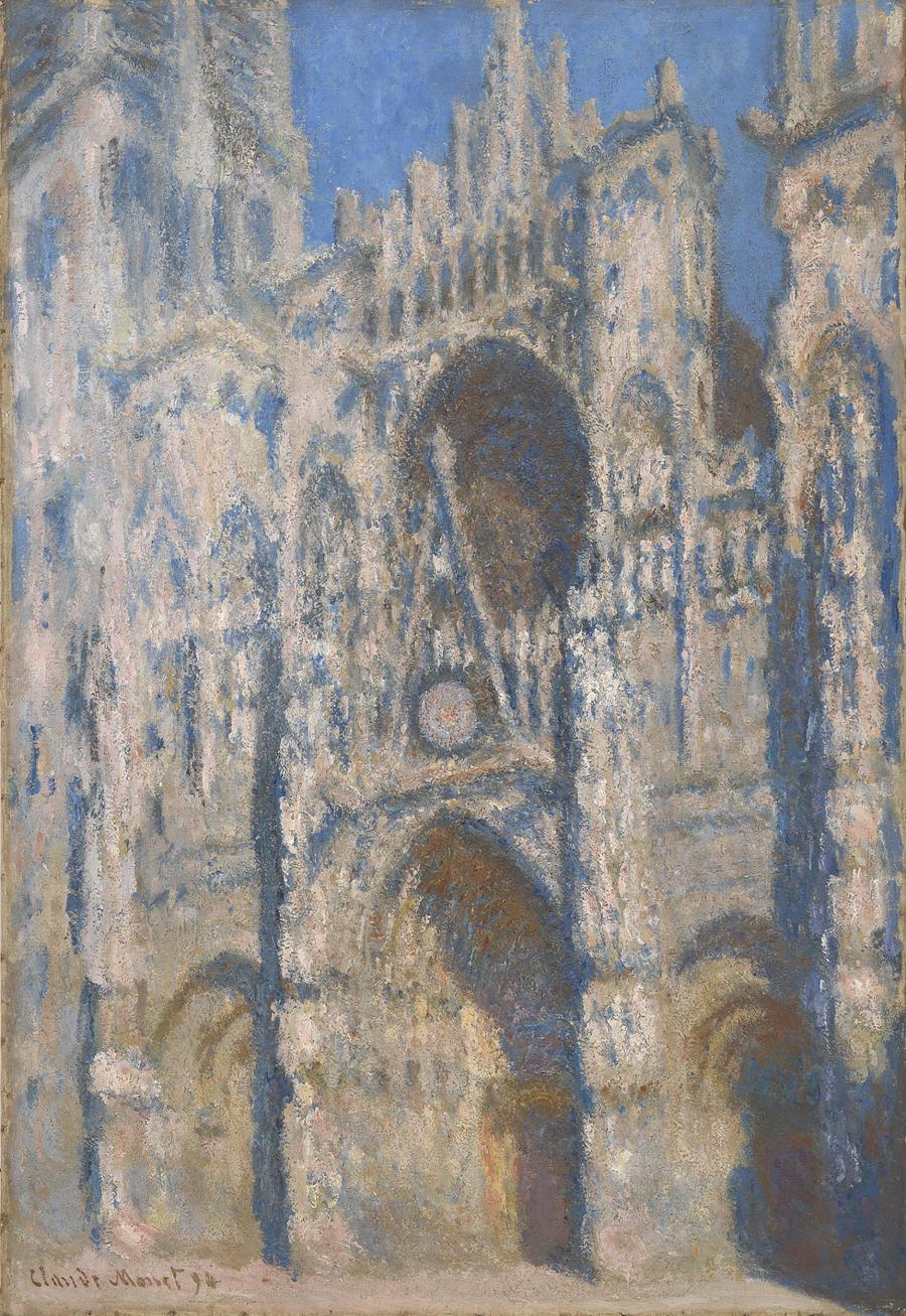 Rouen Cathedral